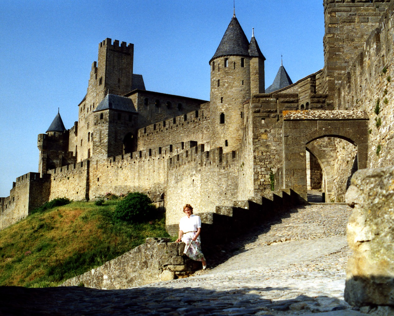 Cité de Carcassonne, woman on wall